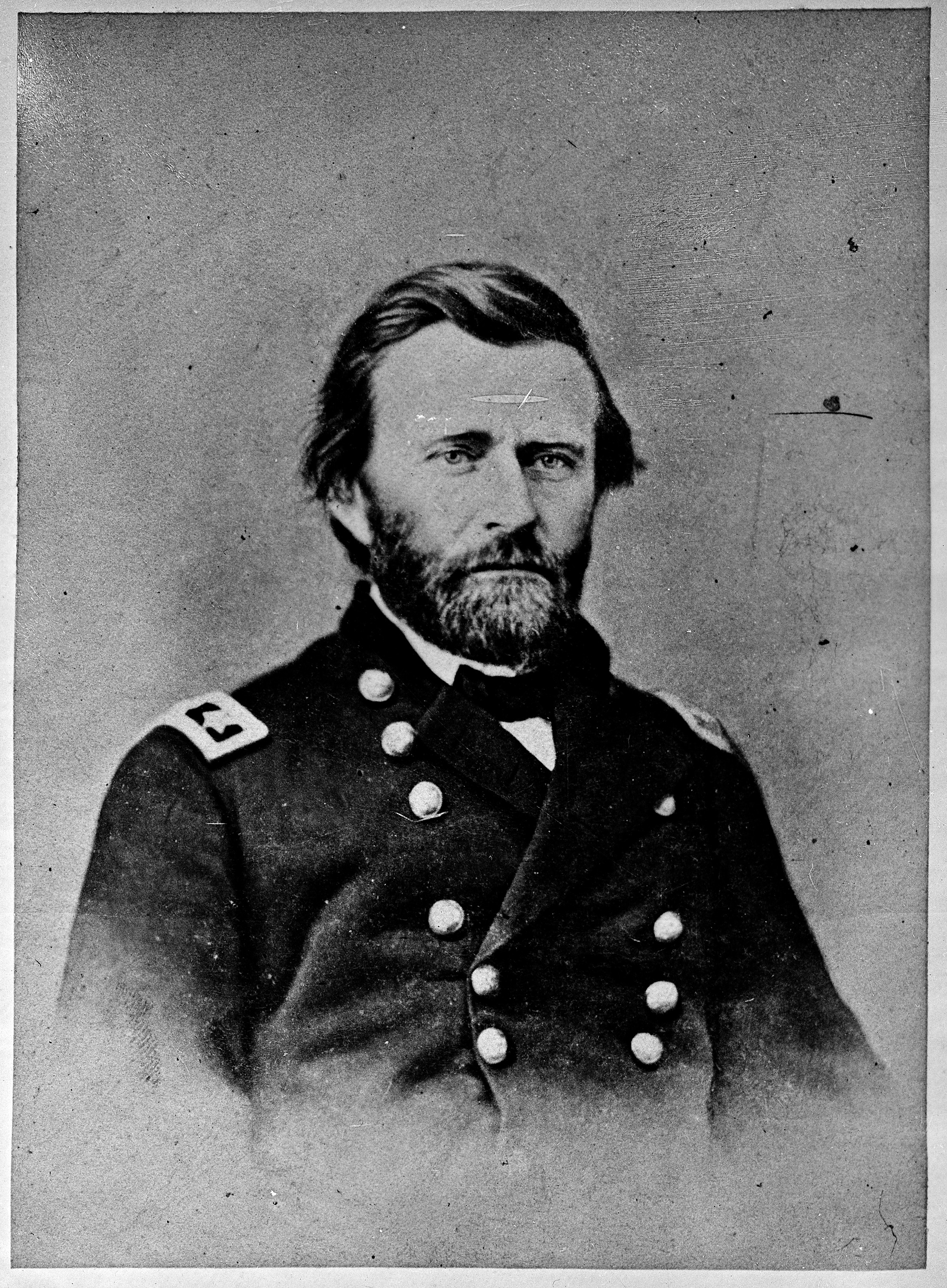 Original Caption: Gen. Ulysses S. Grant U.S. National Archives’ Local Identifier: 111-B-2481 From:: Series: Mathew Brady Photographs of Civil War-Era Personalities and Scenes, (Record Group 111) Photographer: Brady, Mathew, 1823 (ca.) - 1896 Coverage Dates: ca. 1860 - ca. 1865 Subjects: American Civil War, 1861-1865 Brady National Photographic Art Gallery (Washington, D.C.) on/ExternalIdSearch?id=526675 Persistent URL: Repository: Still Picture Records Section, Special Media Archives Services Division (NWCS-S), National Archives at College Park, 8601 Adelphi Road, College Park, MD, 20740-6001. For information about ordering reproductions of photographs held by the Still Picture Unit, visit: Reproductions may be ordered via an independent vendor. NARA maintains a list of vendors at Access Restrictions: Unrestricted Use Restrictions: Unrestricted